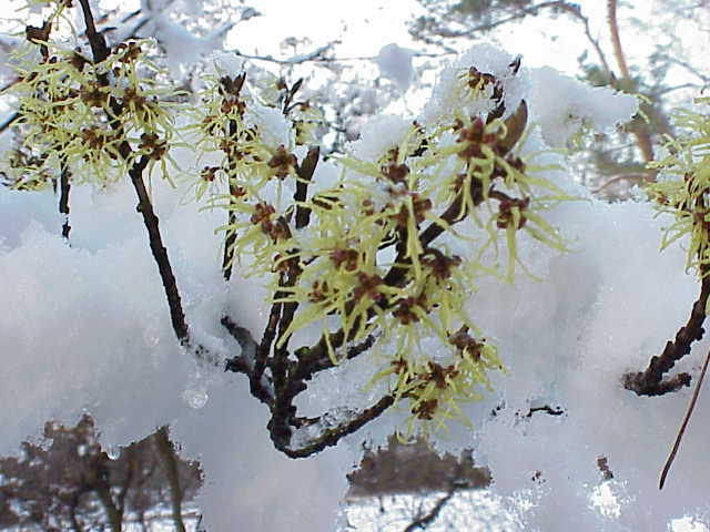 Species: Hamamelis mollis Family: Hamamelidaceae Image No. 1